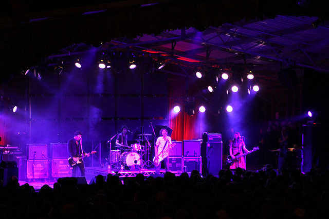 Australian band The Drones live in Melbourne, 2009.